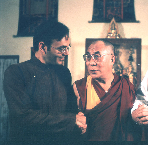 Text of original uploader on en.wikipedia: " Producer-Director Khashyar Darvich speaks with the Dalai Lama during filming of "Dalai Lama Renaissance." This photo is owned by the Wakan Foundation for the Arts, which gave me permission to post it on Wikipedia. It can also be found here: [1] Please credit for the photo.